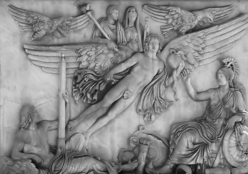 Detail from base relief of column of Antononius Pius (Apotheosis of Antoninus Pius and Faustina)